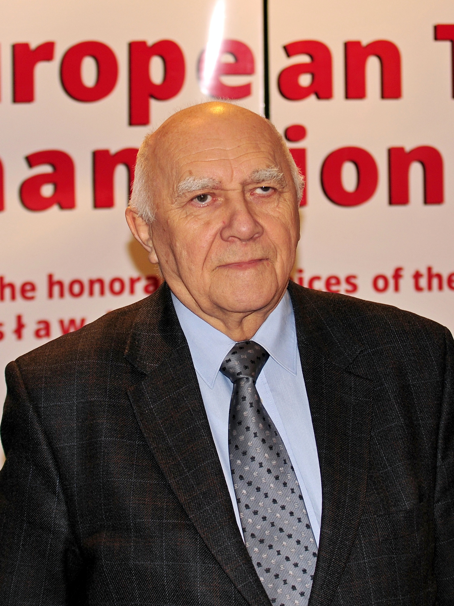 IM Andrzej Filipowicz, European Chess Team Championship Warsaw 2013